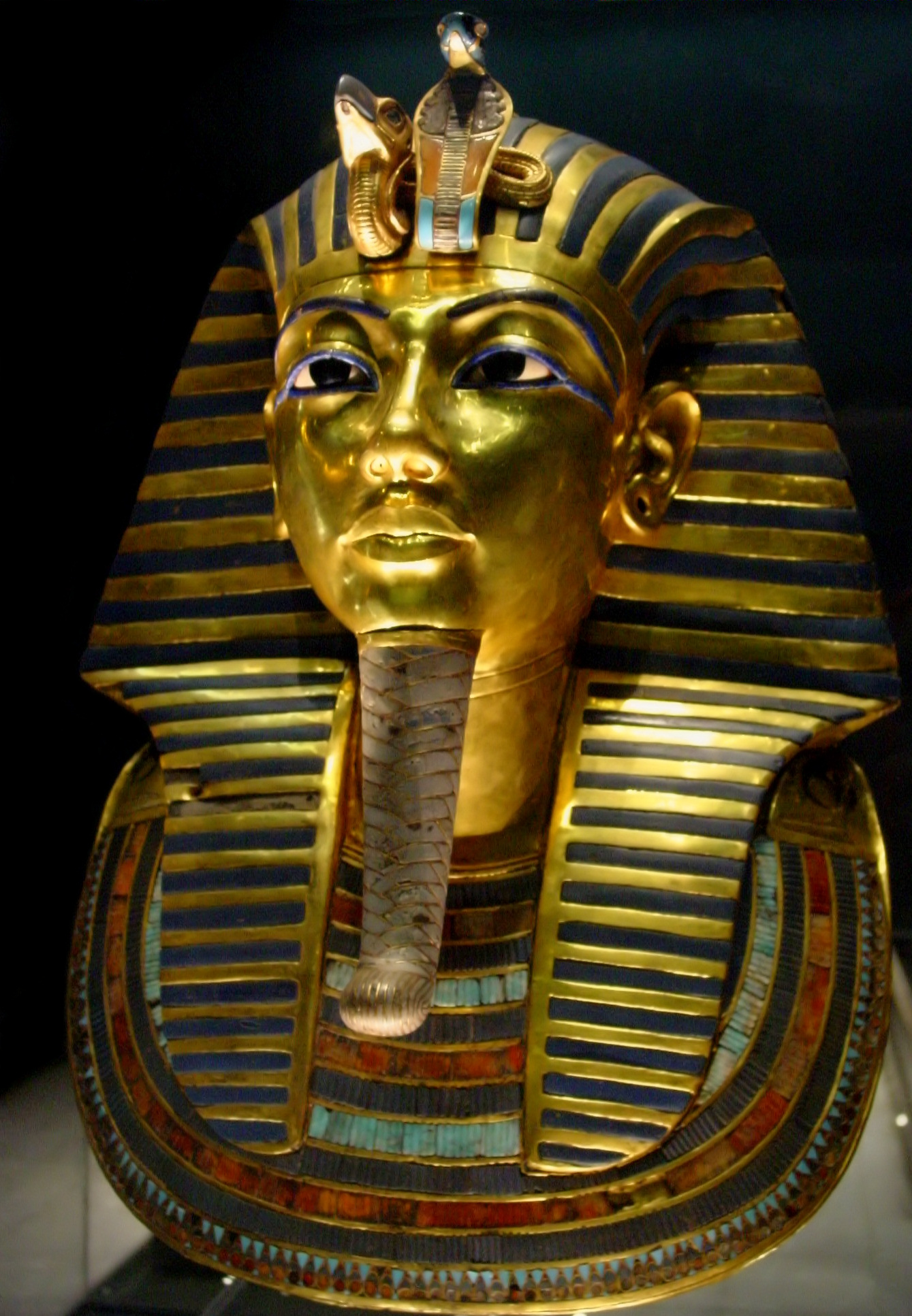 Tuthankamun's famous burial mask, on display in the Egyptian Museum in Cairo.